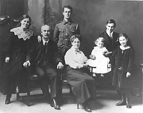 Dugald Louis Poppelwell (1863 - 1939) and family. It is the only not-protected image of Poppelwell, and is of course the subject of the article on him.